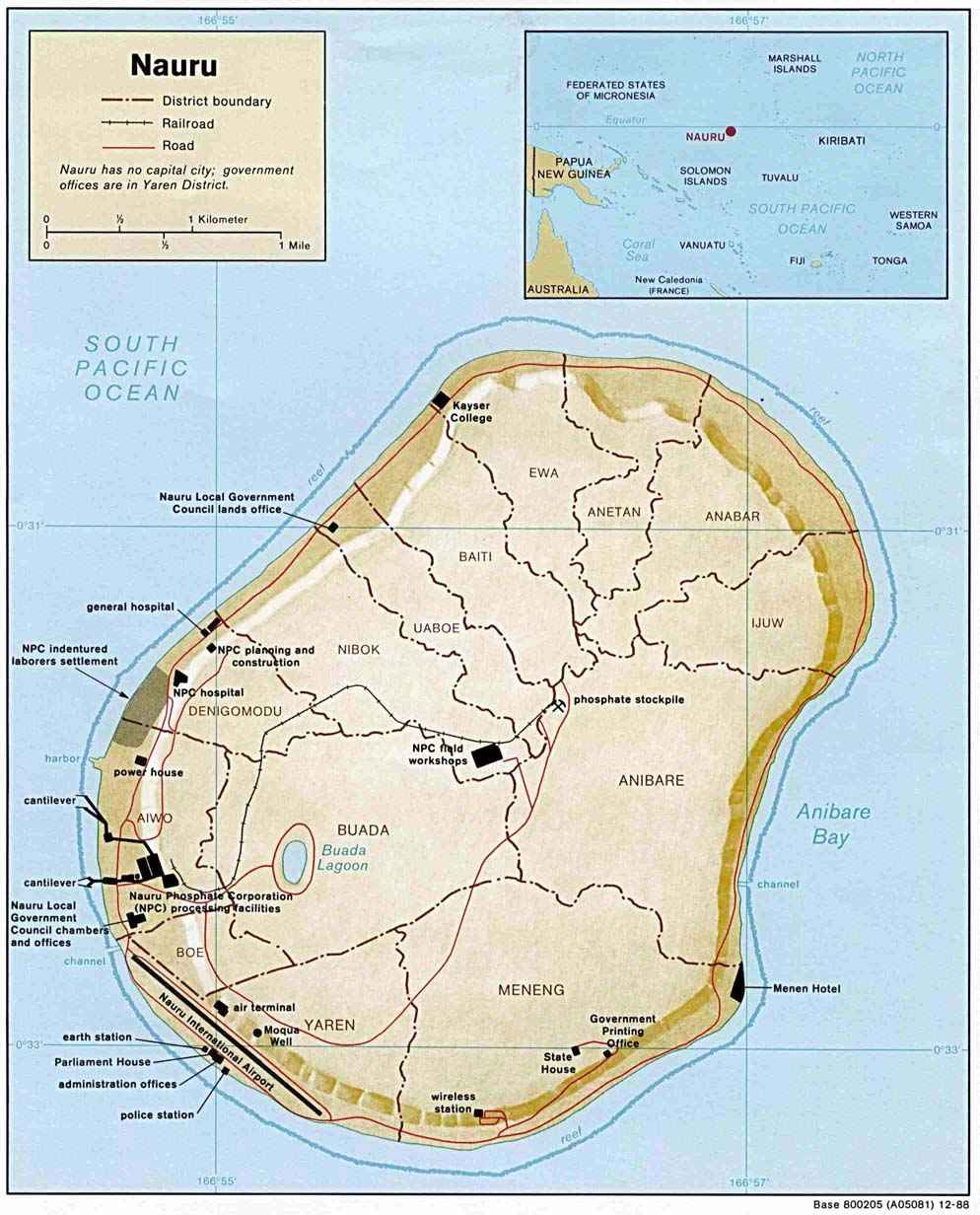 Small-label map of the island of Nauru (click image to enlarge for reading labels), northeast of Australia, north of the Solomon Islands and northwest of Fiji. The island is surrounded by a coral reef ring. The map shows some detailed contour areas near the shoreline.